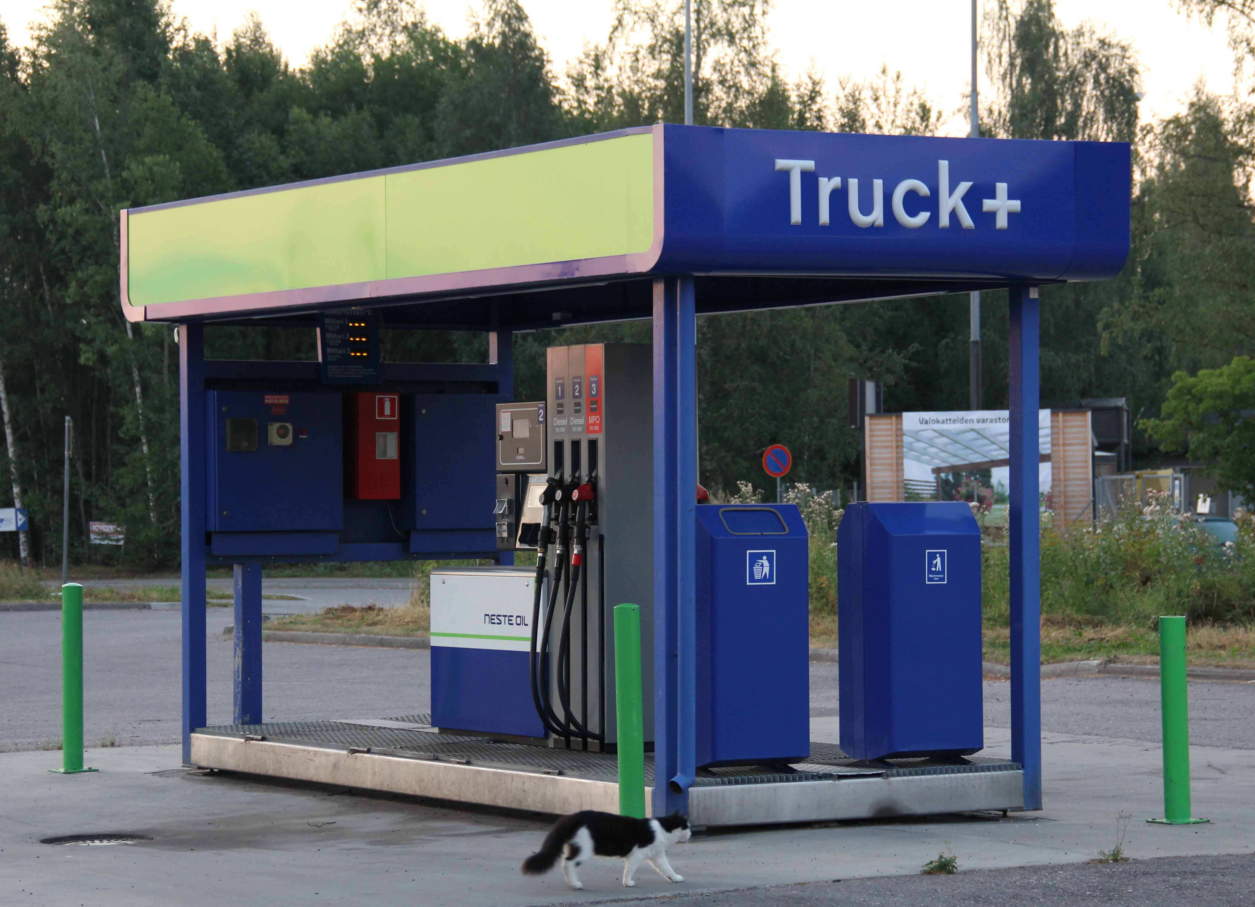 Neste Oil Express diesel pump, Suutarila, Helsinki, Finland. - The cat is purrly coincidental.